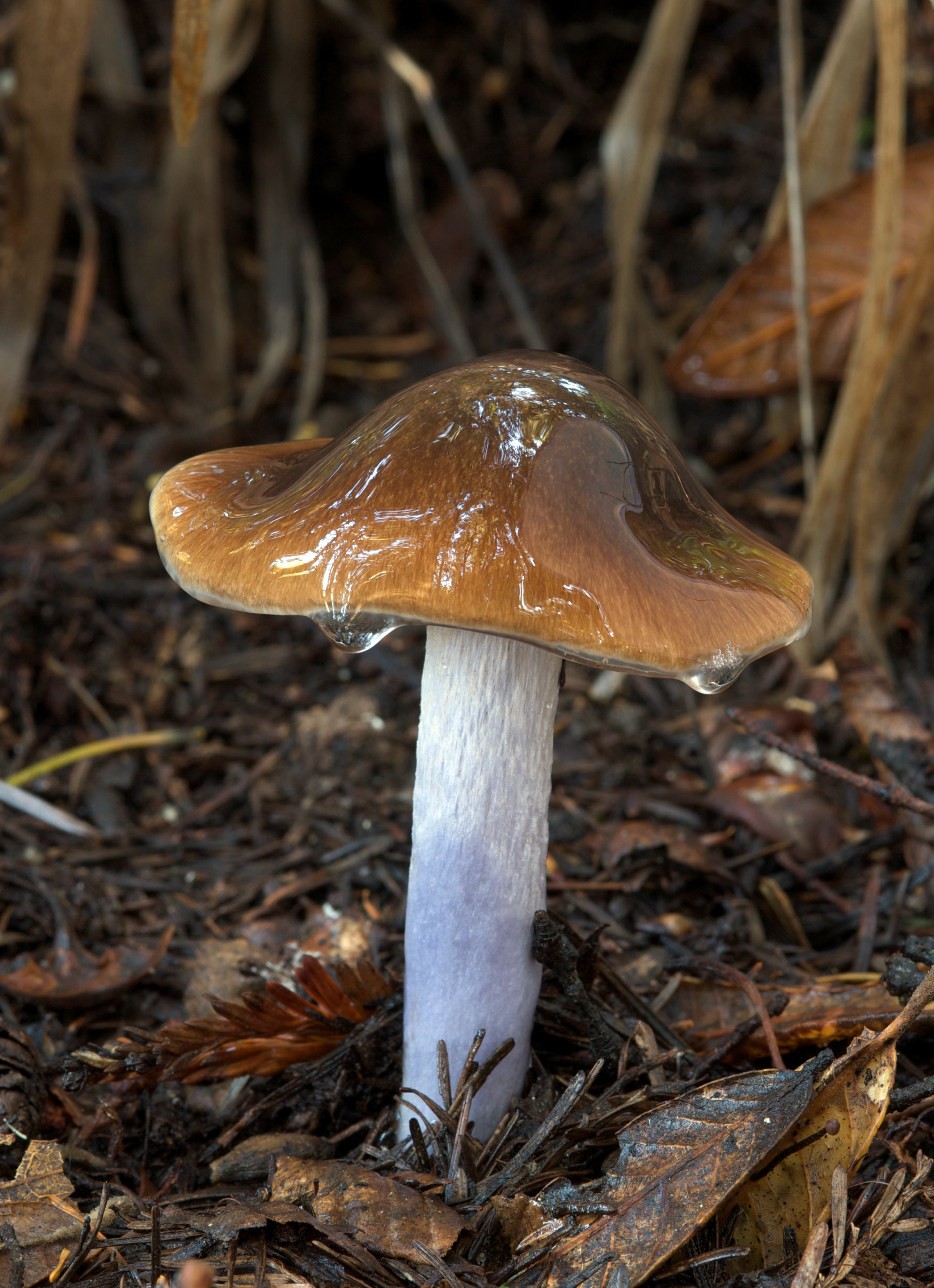 A fruit body of the North American mushroom Cortinarius vanduzerensis − A.H. Sm. & Trappe. Specimen photographed in Salt Point State Park, Sonoma County, northern California, U.S.